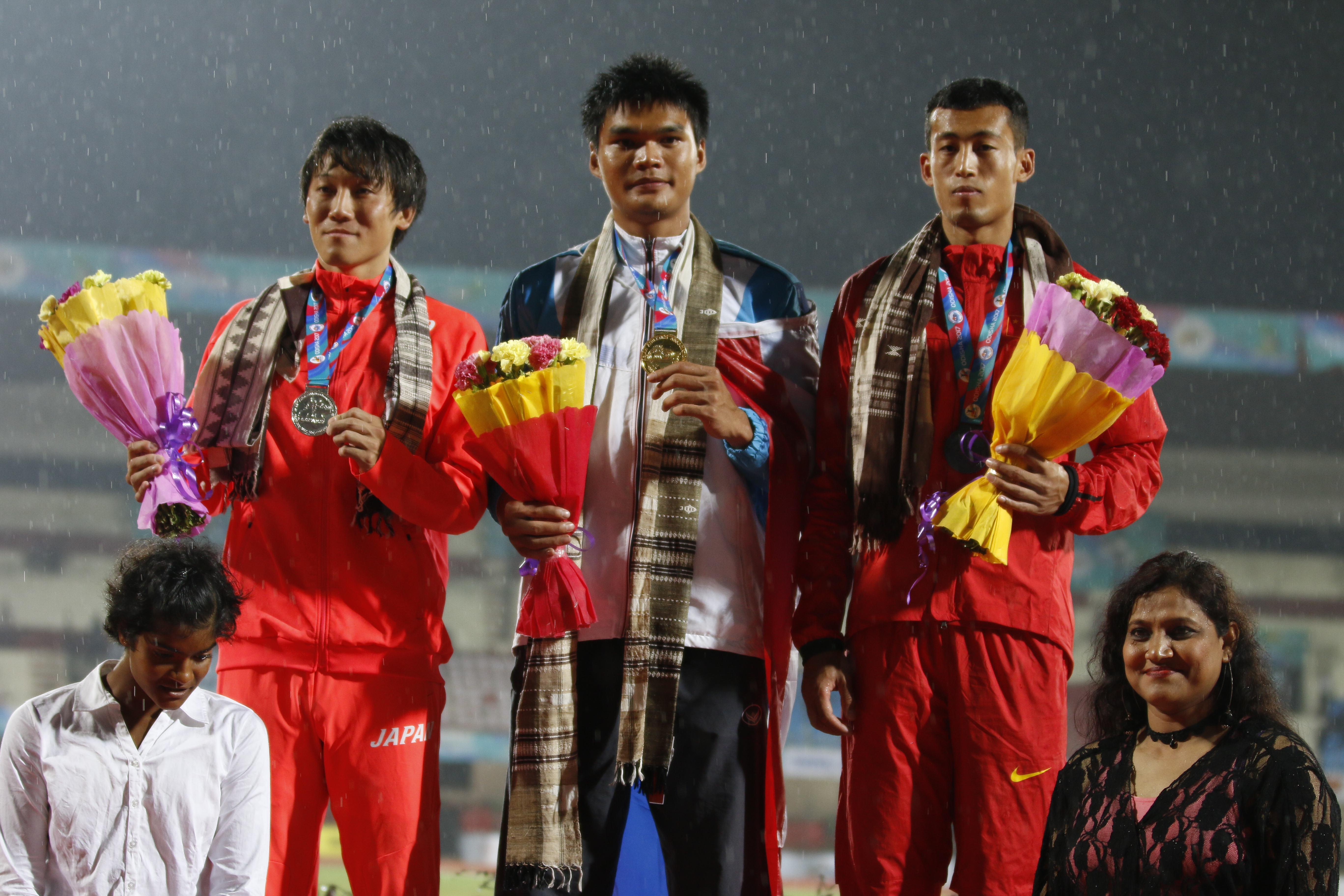 Athletes during 22nd Asian Athletics Championships in Bhubaneswar.